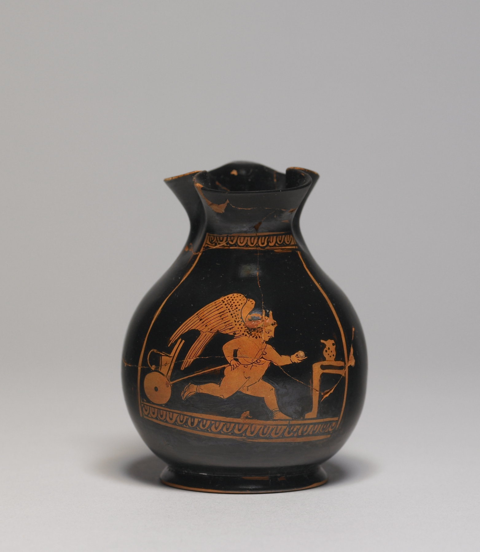 This small "chous," a vessel for wine, would have been given as a gift to a young boy during the Athenian festival known as the Anthesteria, celebrating the new wine. Such vessels depict children at play, often imitating adults. Here, a chubby Eros runs, pulling a child's toy cart behind him. He wears a wreath, a spiked headdress, and a string of amulets across his chest.